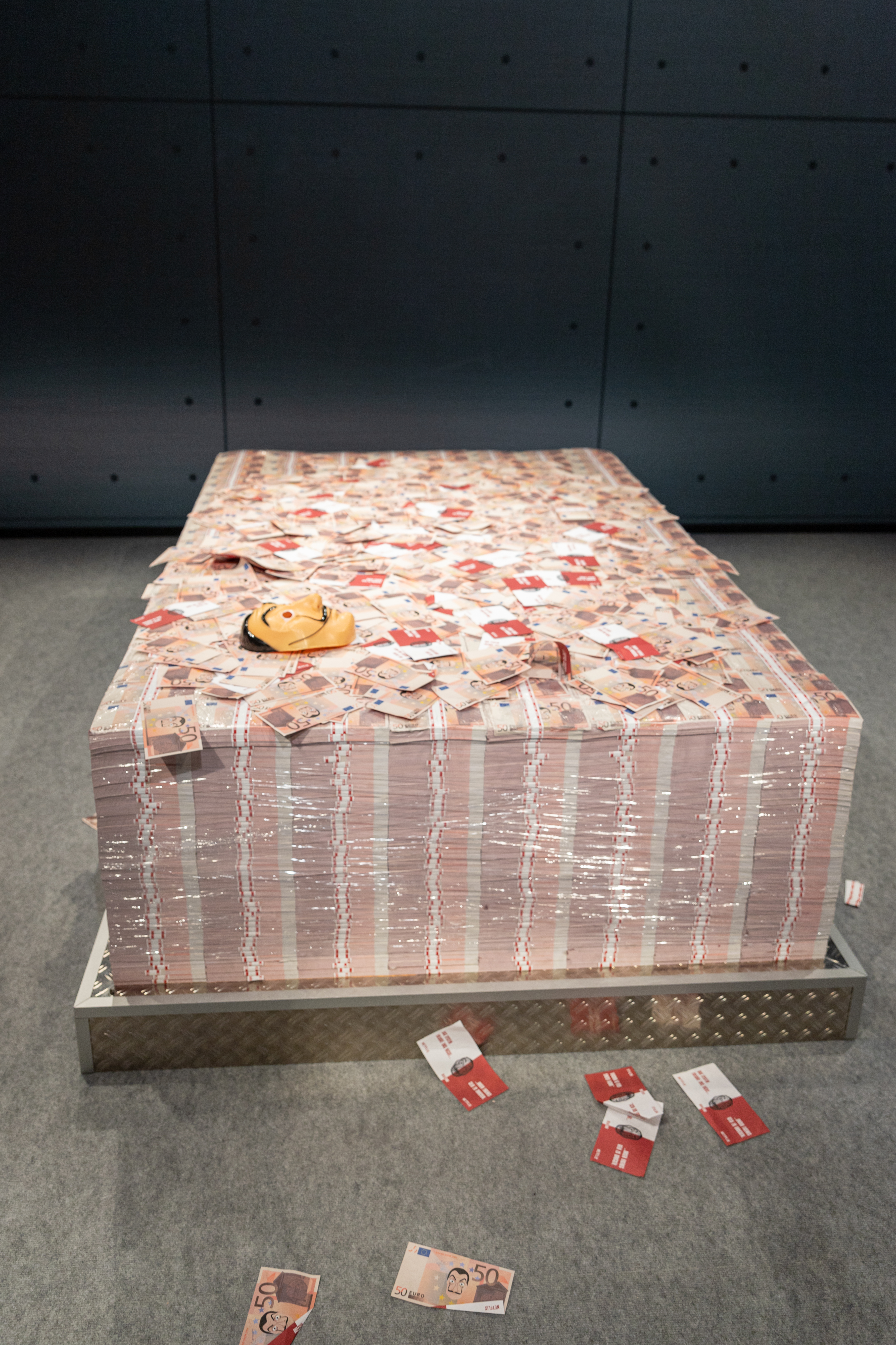 Netflix Money Heist safe Gamescom 2019